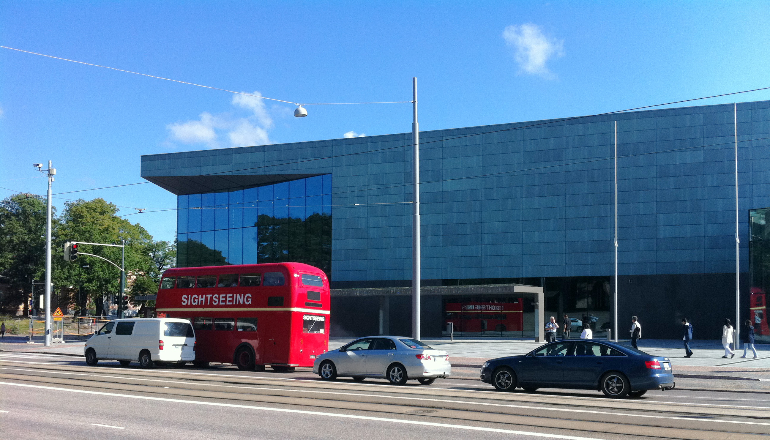 Helsinki Music Centre, 13 August 2011